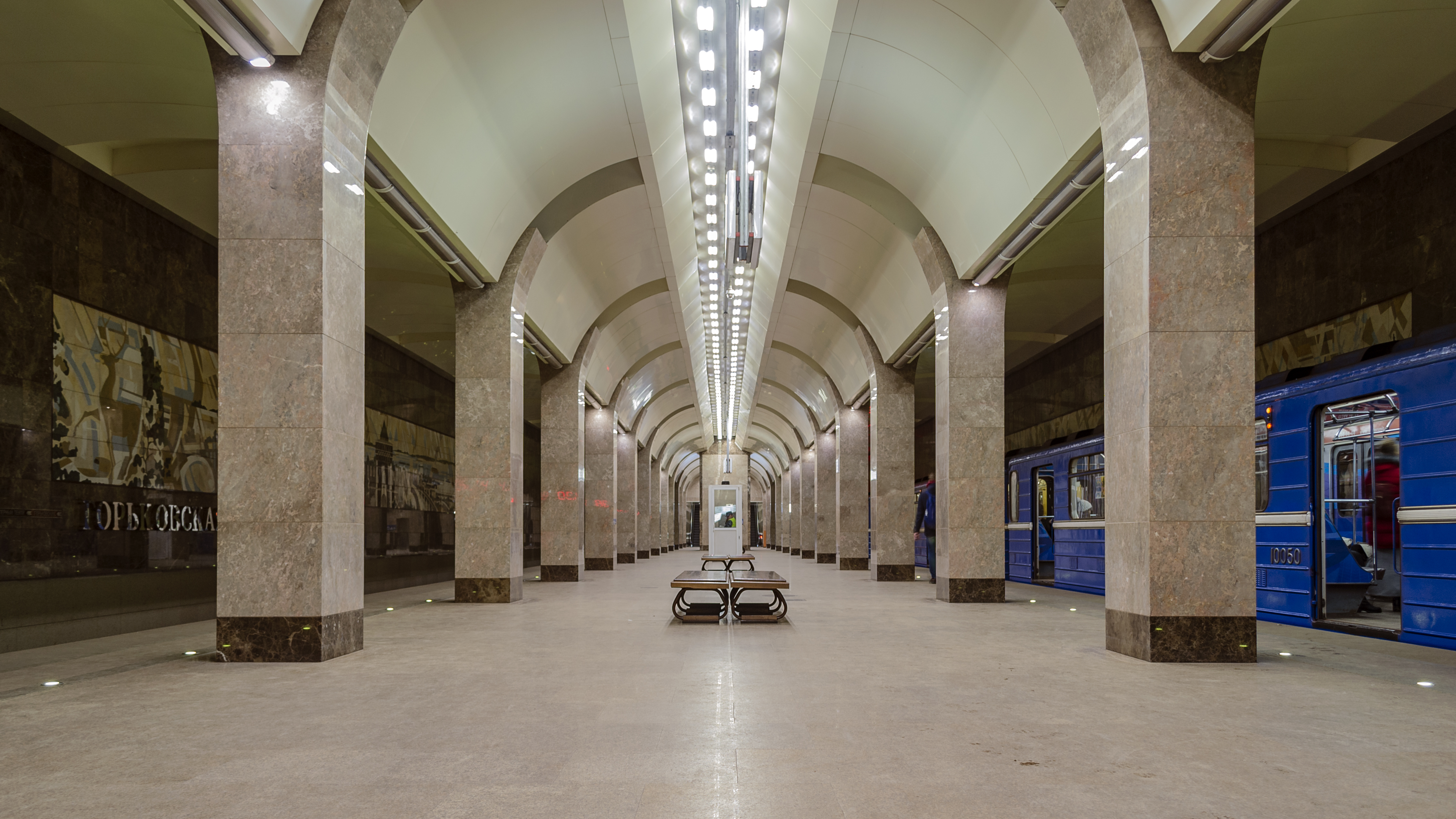 Gorkovskaya metro station in Nizhny Novgorod, Russia.